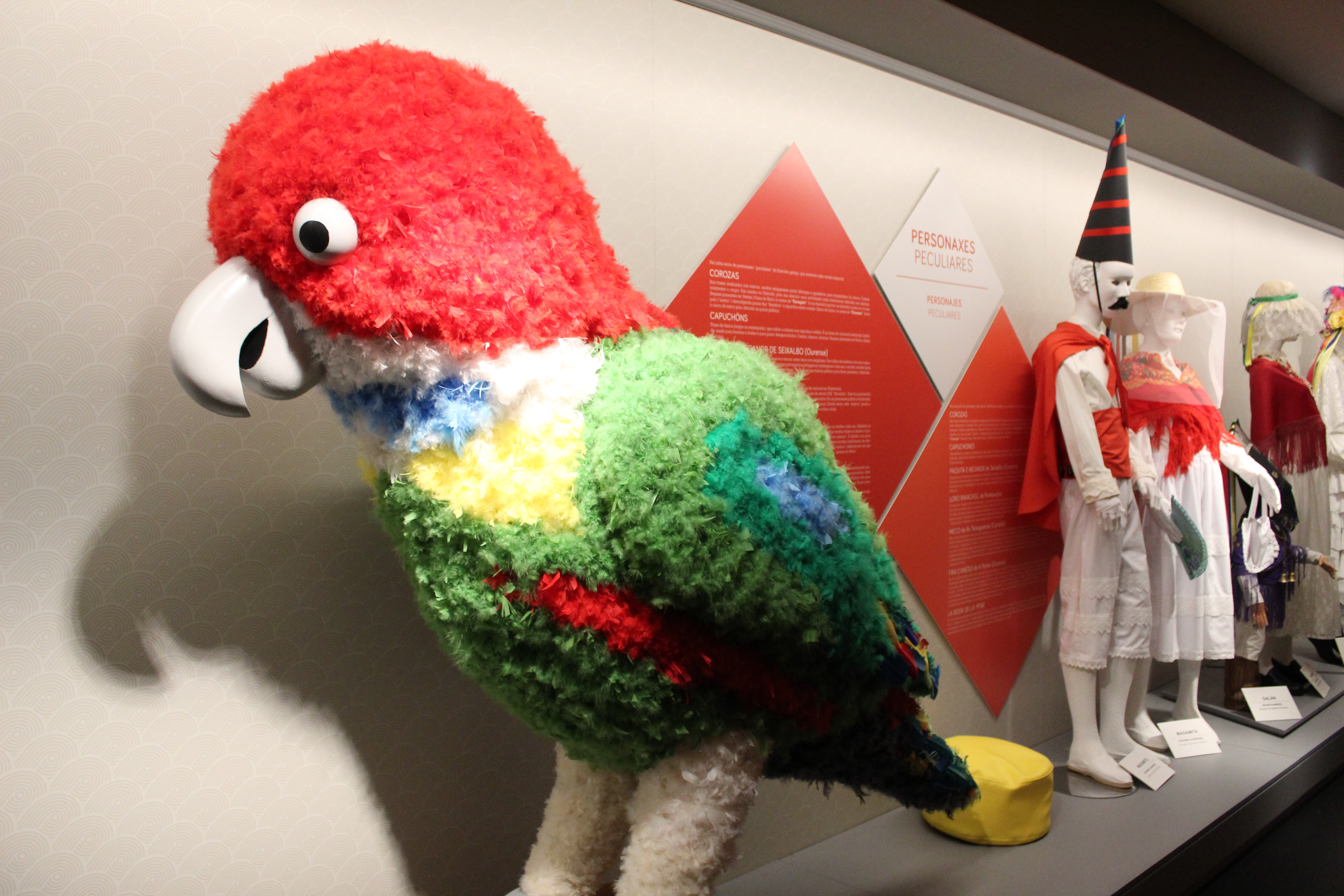 Imaxe do Entroido de Pontevedra